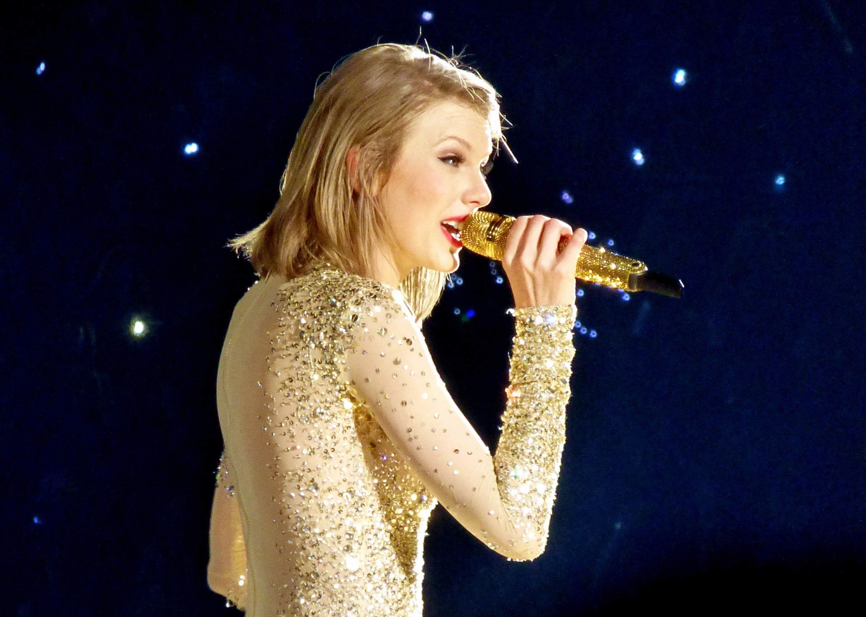 Taylor Swift 1989 Tour at Ford Field in Detroit, 5/30/15